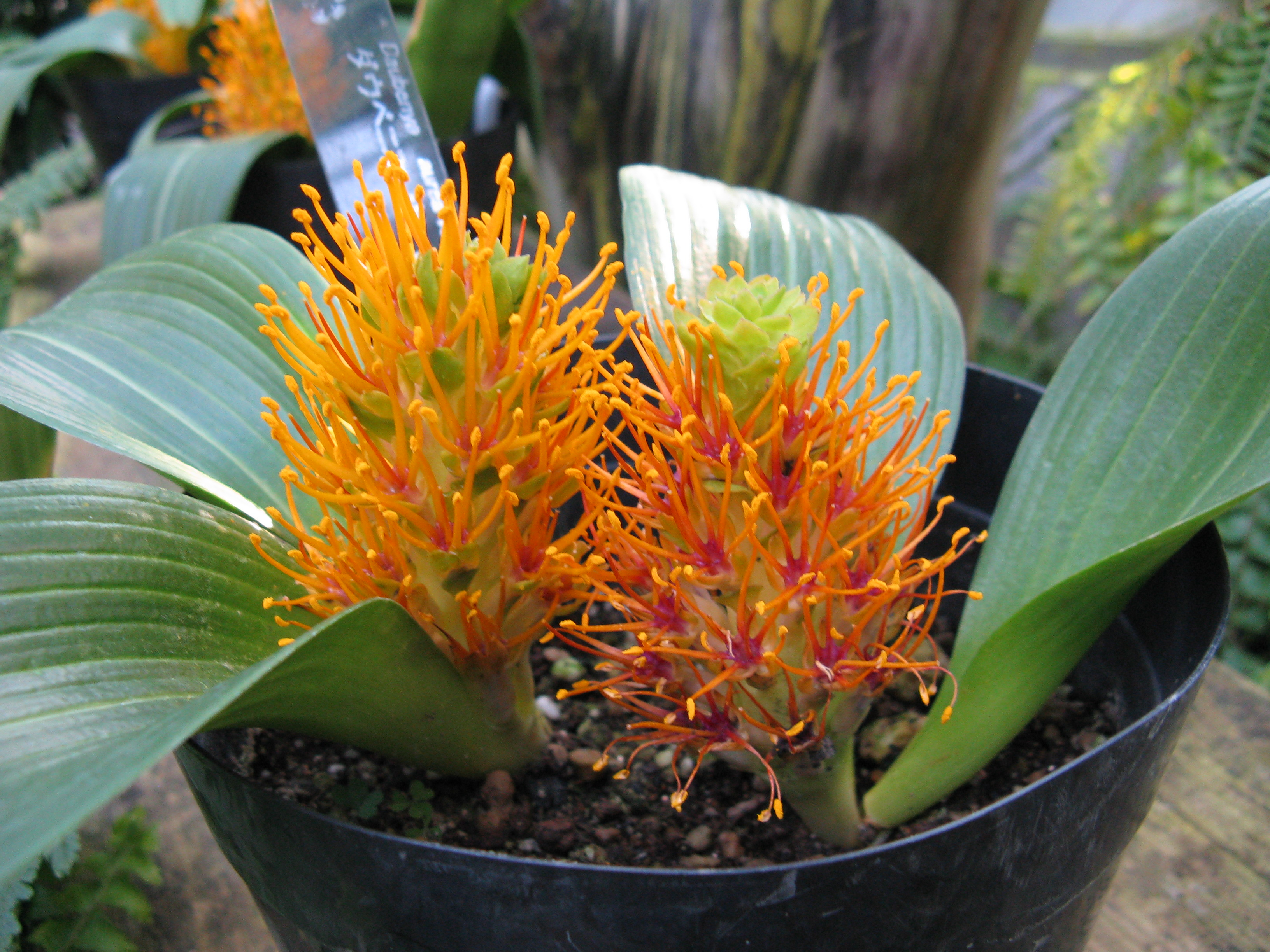 Scientific name Daubenya aurea var. coccinea Place:Osaka Prefectural Flower Garden,Osaka,Japan (I think this is actually Daubenya marginata var. coccinea; see here. D. aurea has flowers with the outer (adaxial) tepals much larger than the others. User:Peter coxhead)